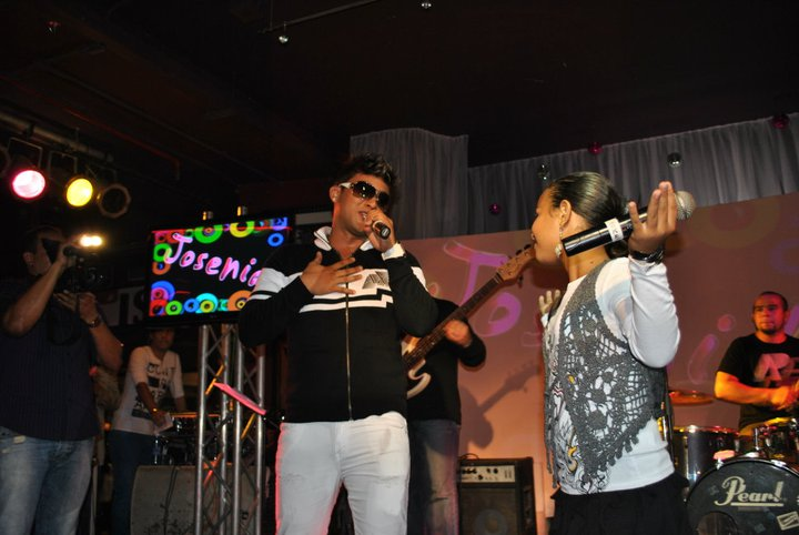 Josenid and Makano singing in 2011